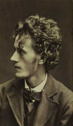 Frederik Julius August Winther (1853-1916), Danish landscape painter